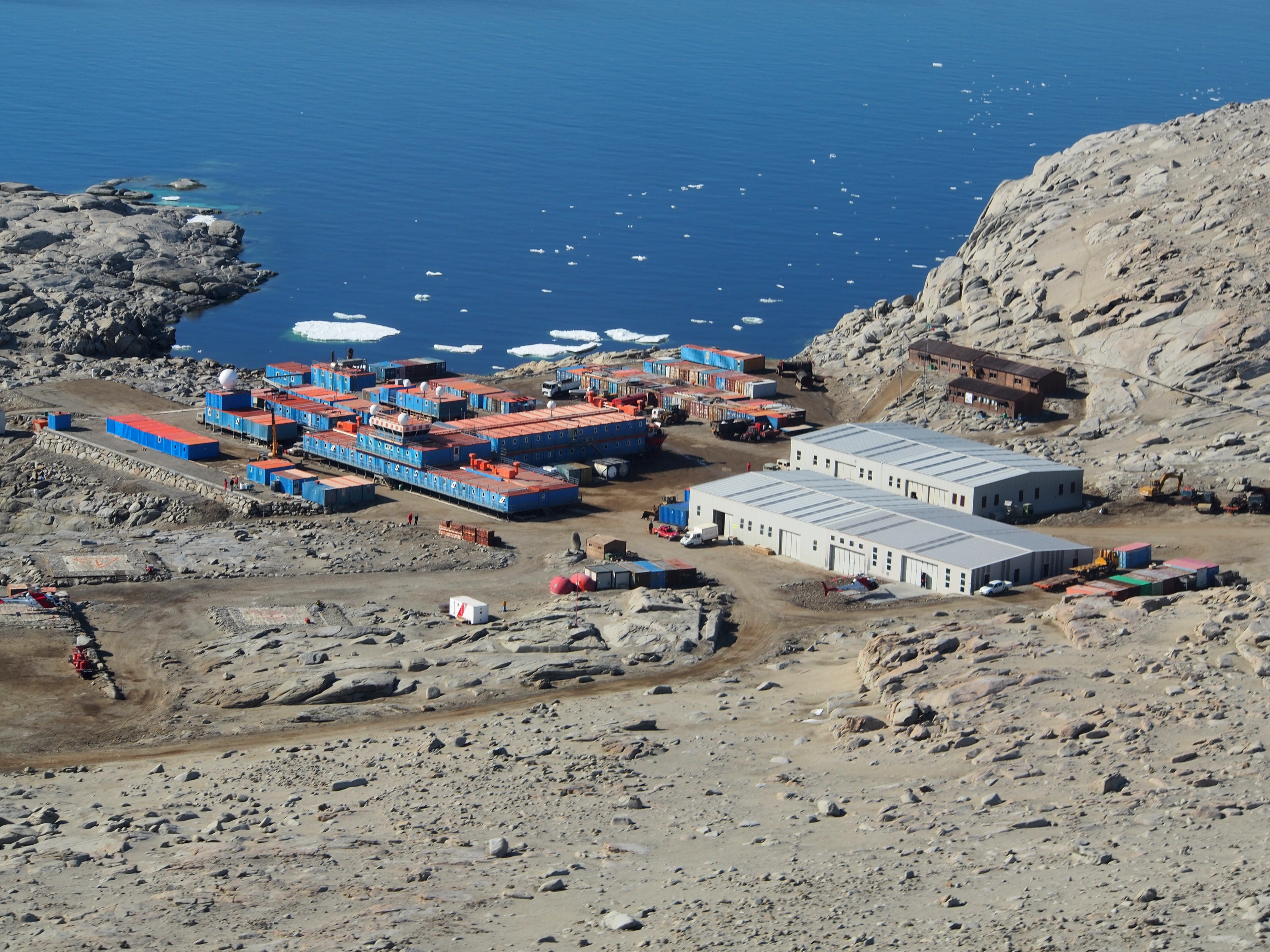 Aerial picture of the Italian research station Mario Zucchelli, located in the Terra Nova Bay, Antarctica.